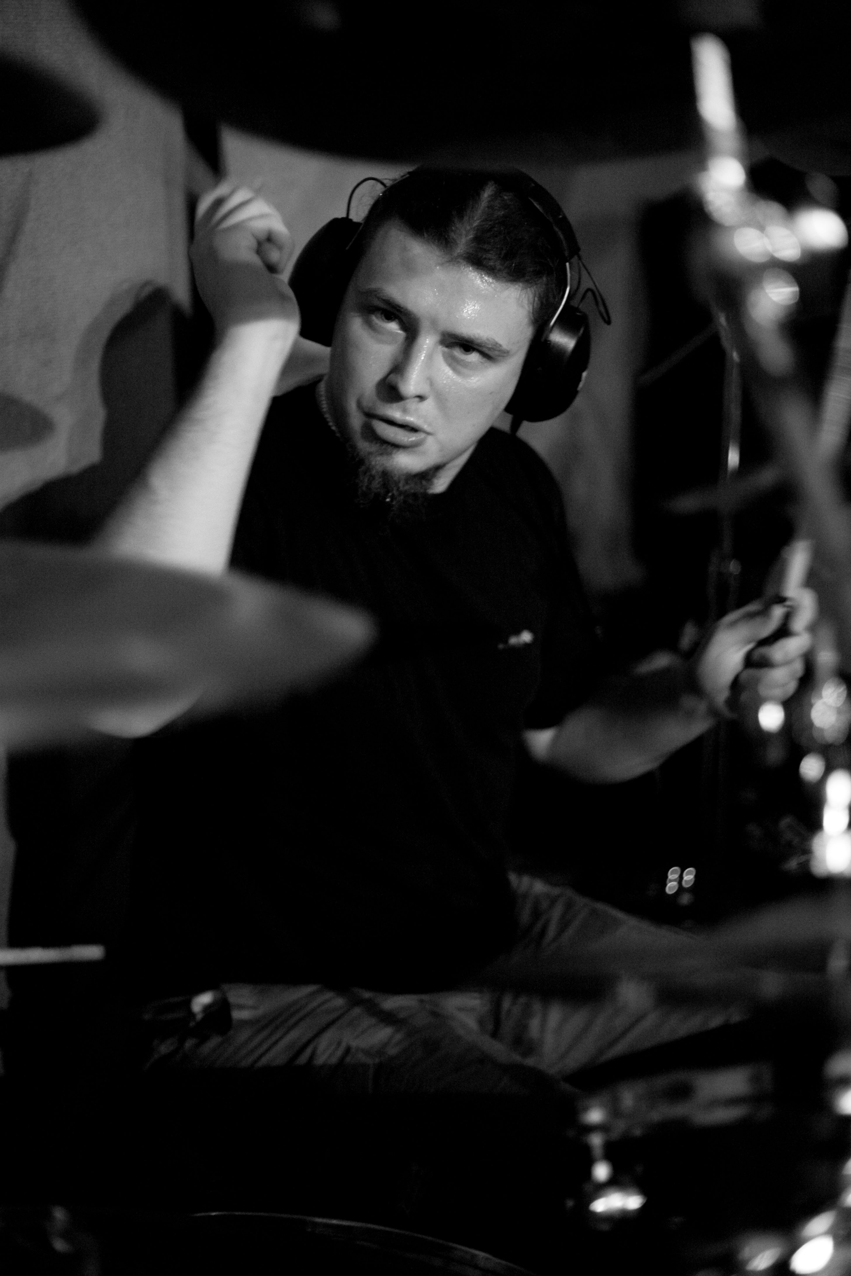 drummer Paweł "Paul" Jaroszewicz (rehearsal with Vader, 2008, Progresja club)